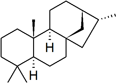 The structure of kaurane as given in “Revised Section F: Natural Products and Related Compounds (IUPAC Recommendations 1999)”, in Pure Appl. Chem., volume 71, issue 4, (Please provide a date or year), pages 587–643.